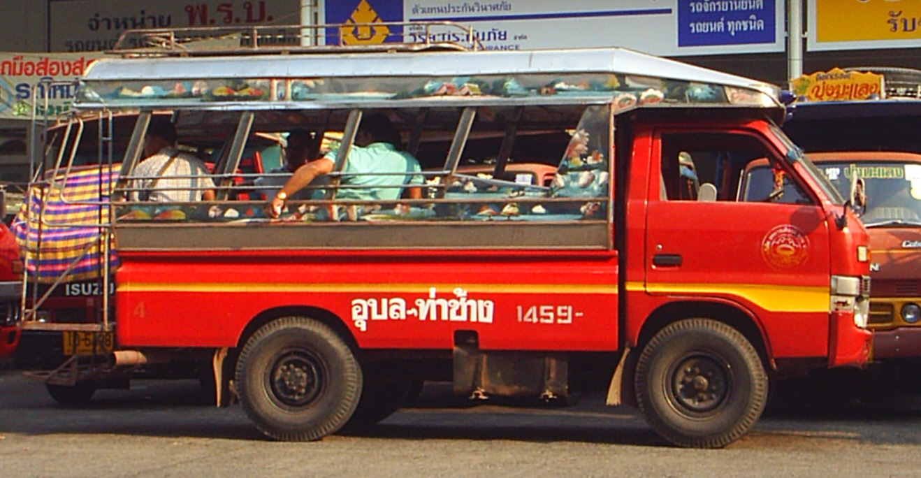 Isuzu N-Series songthaew, photographed in Ubon Ratchathani, Thailand.